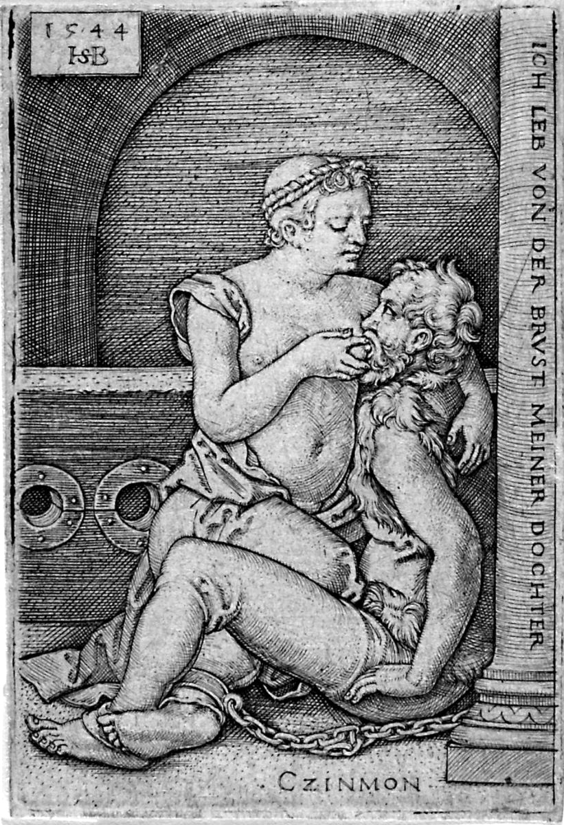 Cimon and Pero by German artist Hans Sebald Beham (ca. 1500-1550)